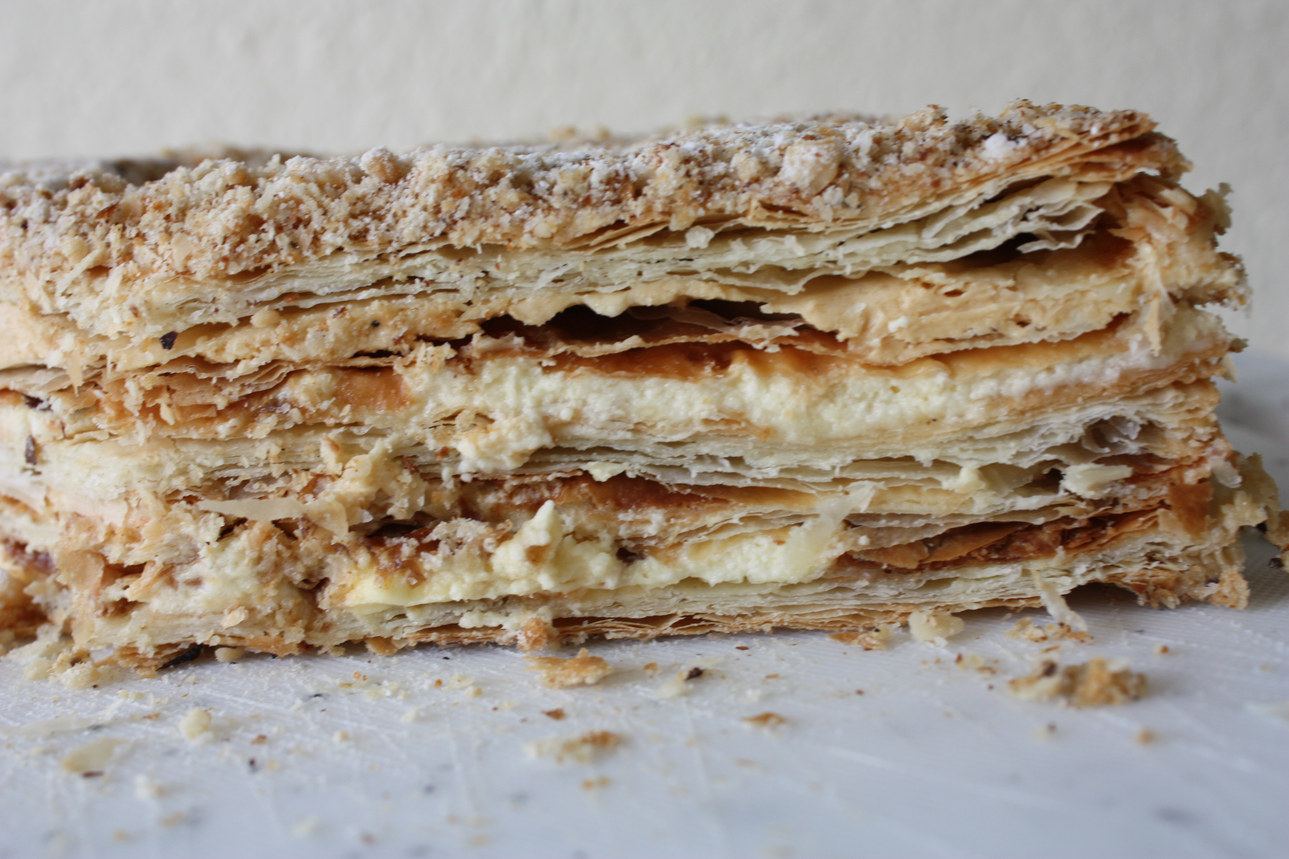 Mille-feuille